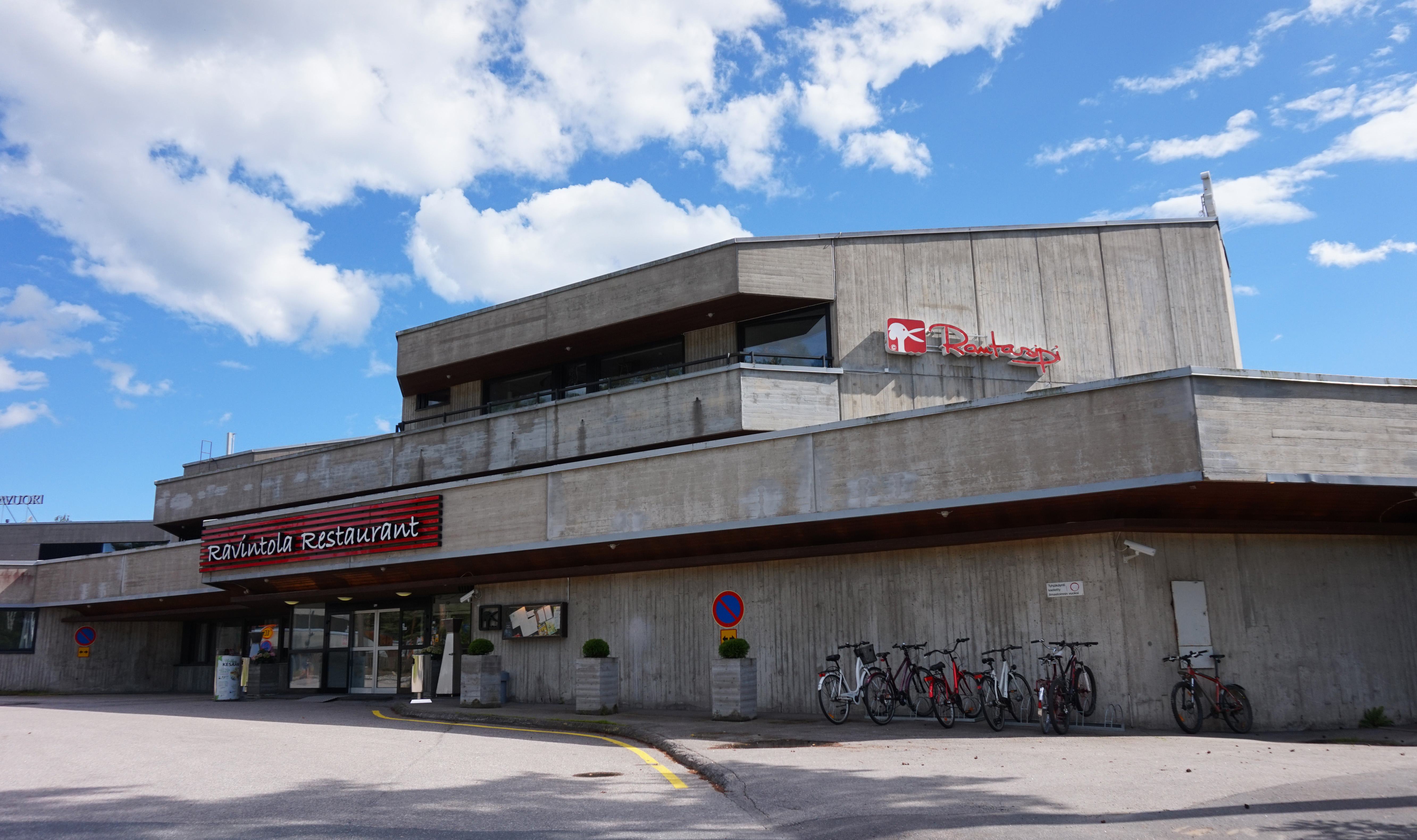 Rantasipi hotel, Jyväskylä.This photograph was taken with a Sony ILCE-5000